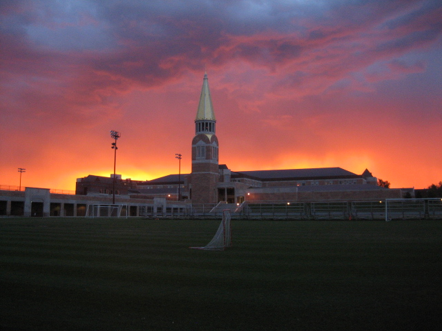 Sunrise behind the Ritchie Center on the University of Denver's campus (07/27/06).